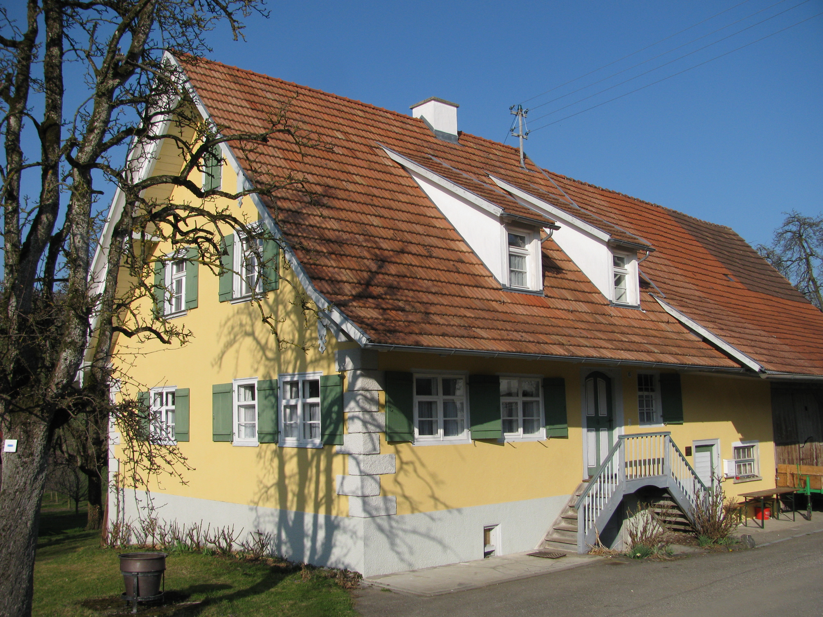 Germany - Baden-Württemberg - Bodenseekreis - Kressbronn am Bodensee - Gattnau, Wäschbachweg: house no. 15